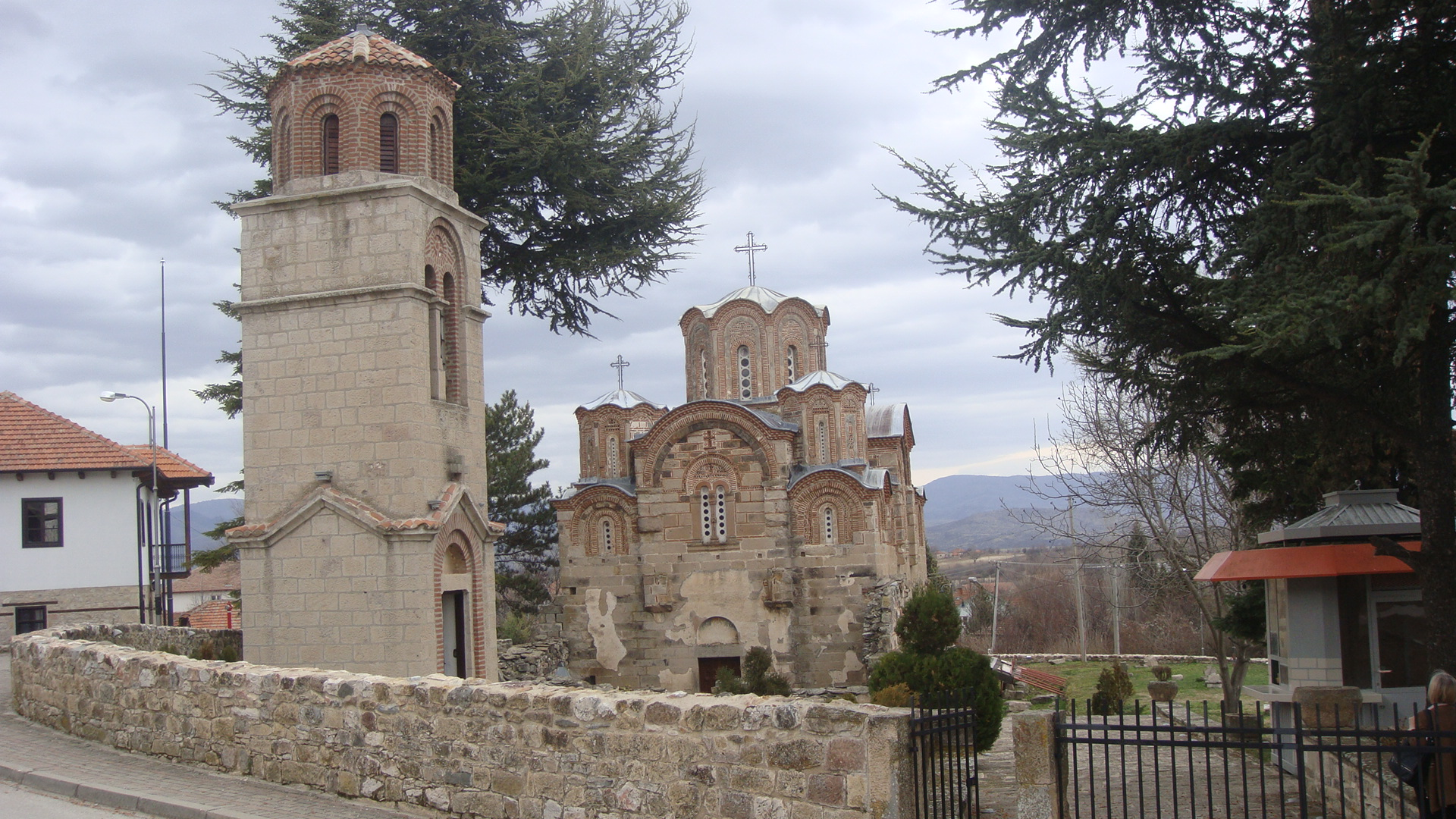 St. George's Church in Staro Nagoričane